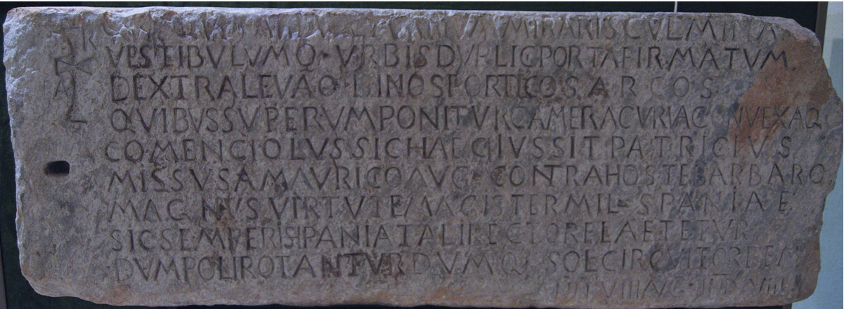 The Inscription of Comentiolus (Lápida de Comenciolo), the principal historical artifact testifying to the presence of the Byzantines in Spain. 6th century. Municipal Archaeological Museum of Cartagena (Museo Arqueológico Municipal de Cartagena). It reads: Whoever you may be, you will admire the high sections of the tower and the vestibule of the city, constructed over a double entrance. To the right and left are attached two porches with double arcs to which a convex curved room is superposed. The patrician Comentiolus commissioned its construction, dispatched by the Emperor Maurice against the barbarian enemy. Great for his virtue, master of the soldiers of Spain, thus always Hispania will be indebted for such a director while the poles turn and while the sun surrounds the orb. In the VIII year of the Emperor. Indiction VIII. CIL 02, 03420 = CartNova 00208 = ILCV 00792 = CLE 00299 = D 00835 = IHC 00176 = HEp-07, 00444 = AE 1998, +00694